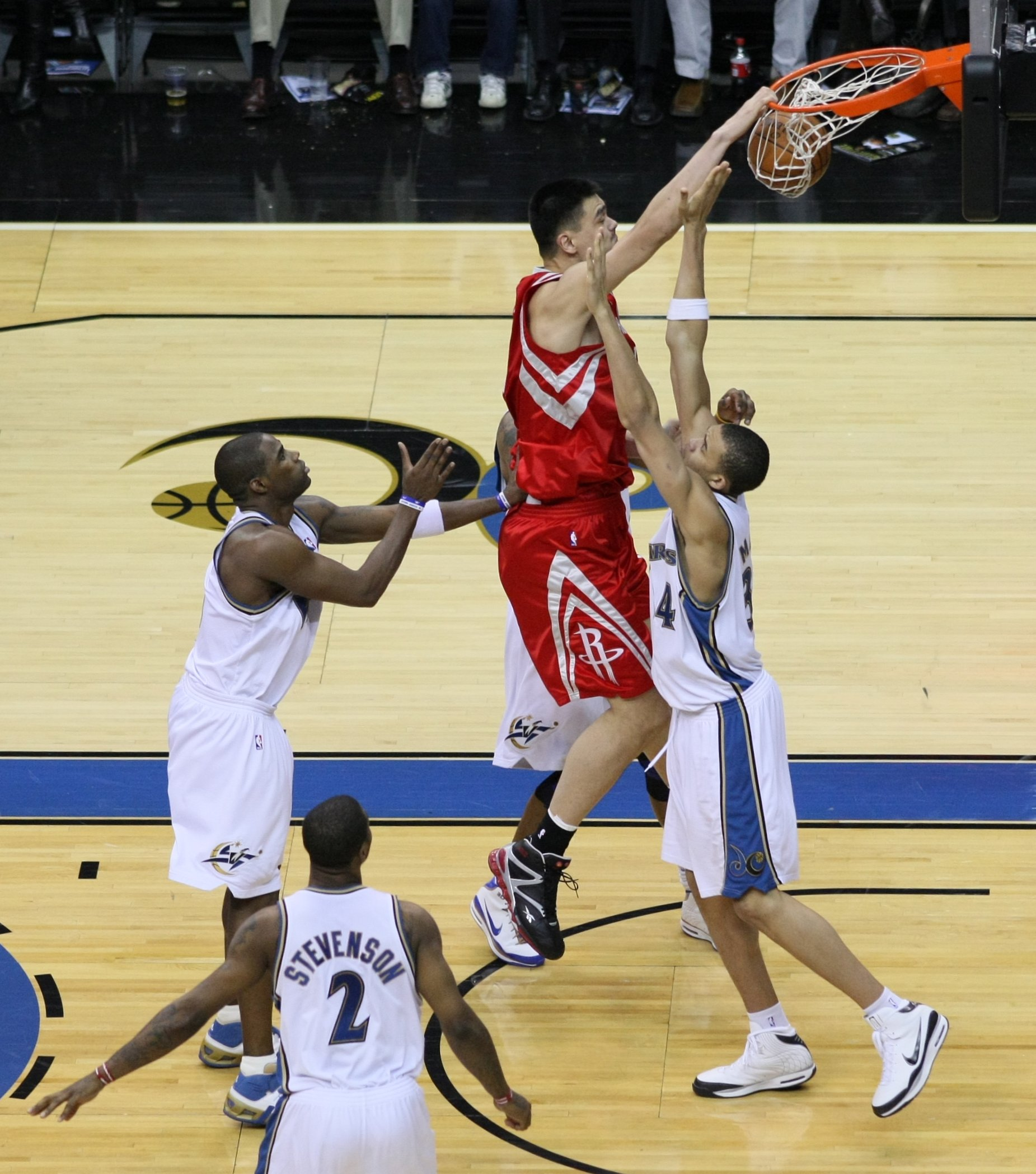 Yao Ming dunks over JaVale McGee during the Washington Wizards v/s Houston Rockets game on Nov 21, 2008 at Verizon Center in Washington, D.C.